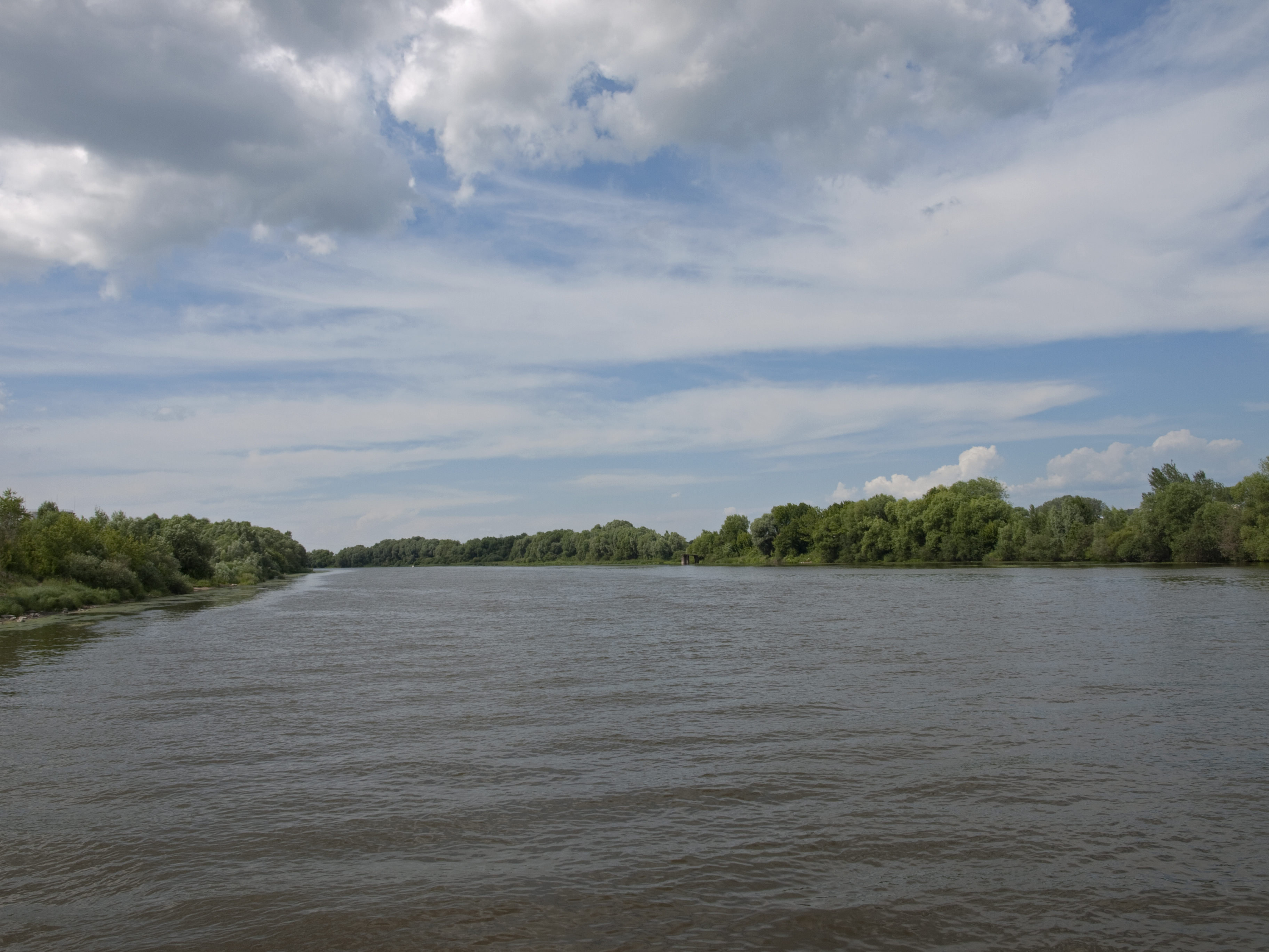 The Moscow River downstream from the city of Kolomna, several hundred meters from its mouth in the Oka River.